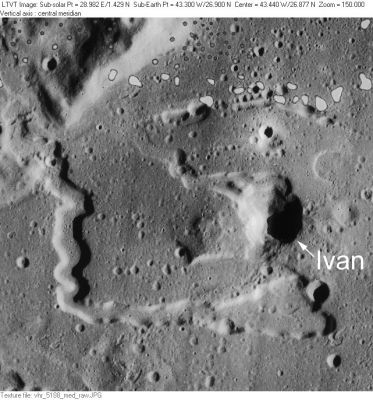 Ivan is about 20-km NNE of Vera, another pit in the Rimae Prinz area.